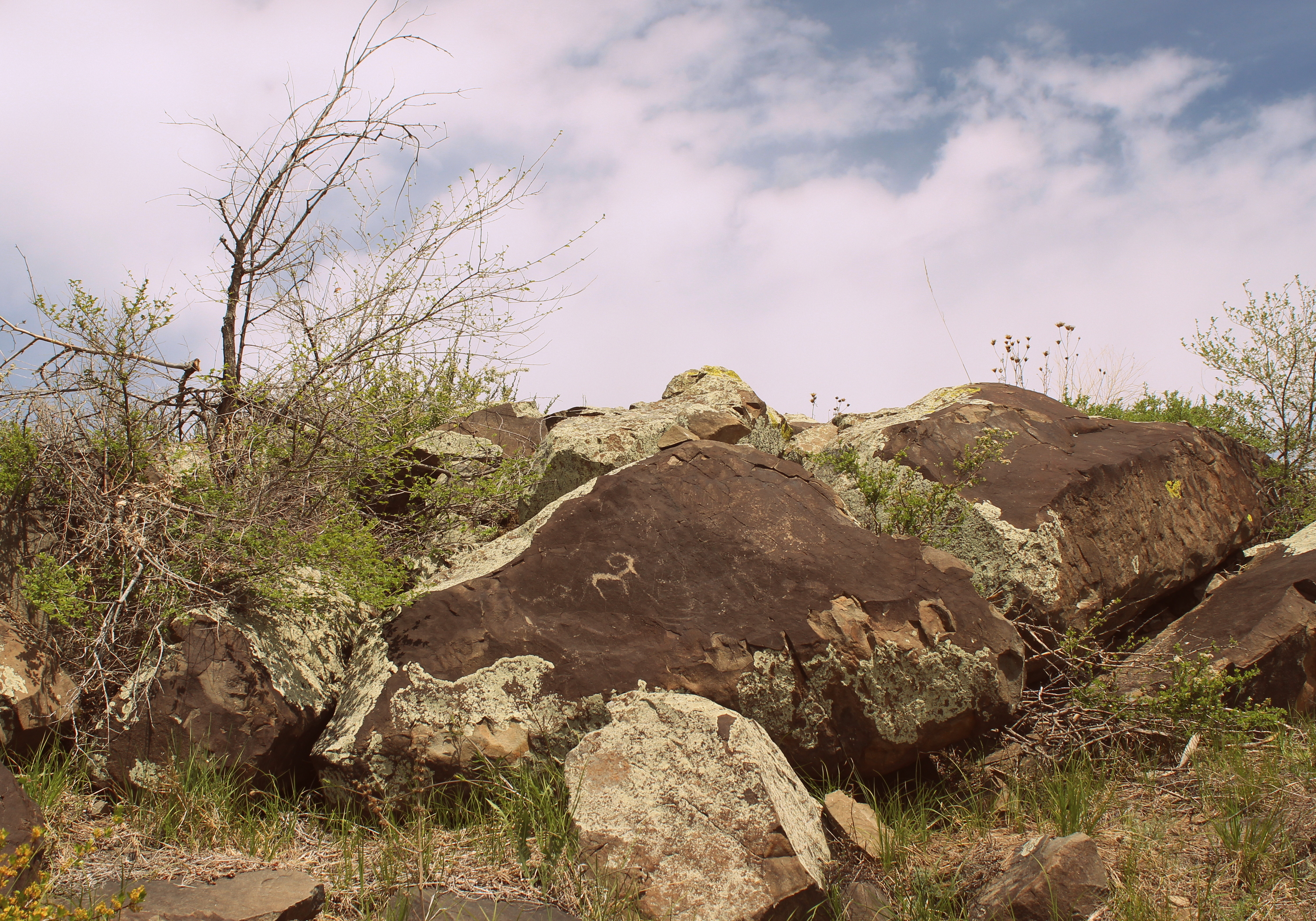 Petroglyphs on Mount Baga-Zarya. Siberia, Buryatia.